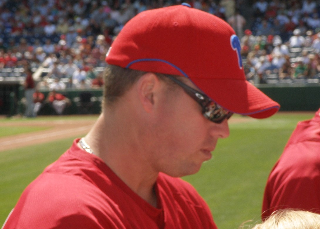 Jon Lieber signing autographs before the March 12, 2007 game against the Houston Astros